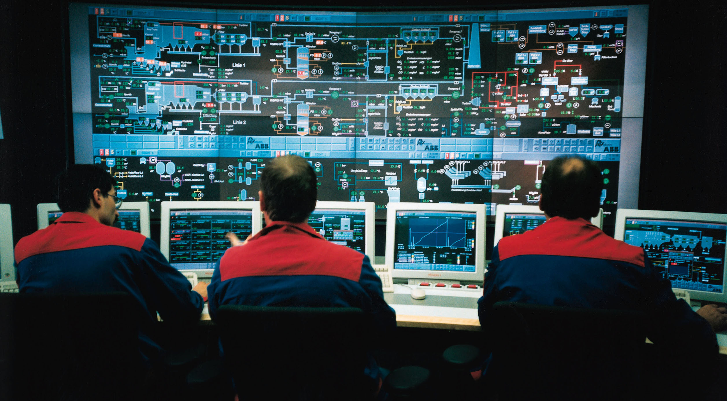 Control room of a moving grate incinerator for municipal solid waste. The screen shows two oven lines, of which the upper ("Linie 1") is not in operation.